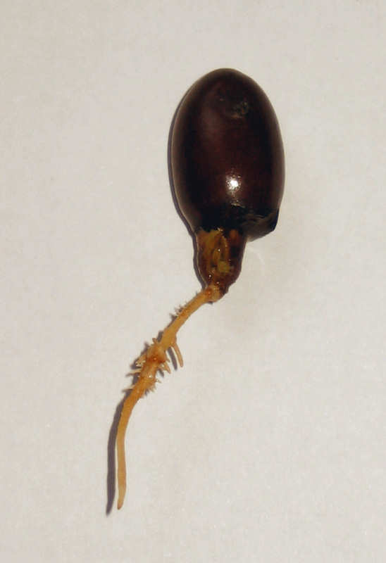 Litchi seed with an emerging root.